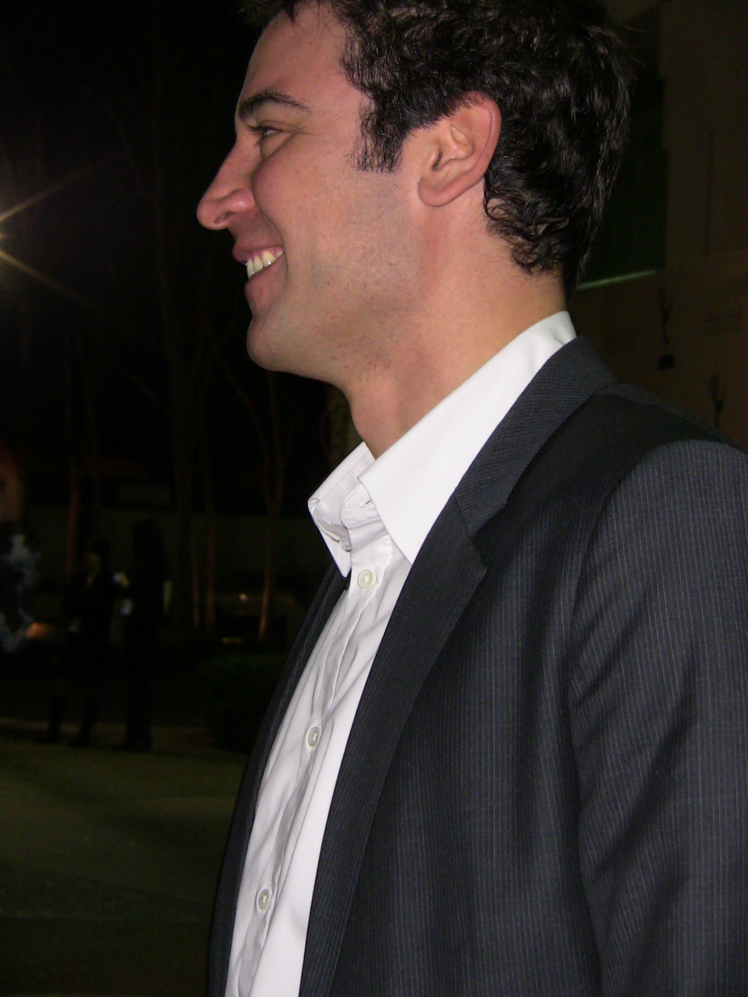 Actor Josh Radnor - Academy Of Television Arts & Sciences Presents An Evening With "How I Met Your Mother", 2009